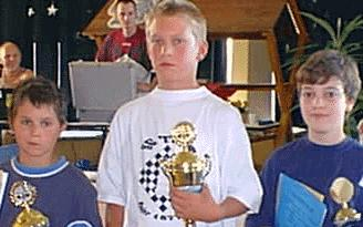 Victory ceremony: Axel Heinz, Stephan Raach and Carsten Weichhold, German youth chess championship 1998 (in the age-group under 11) at Oberhof, Photographer Gerhard Hund.